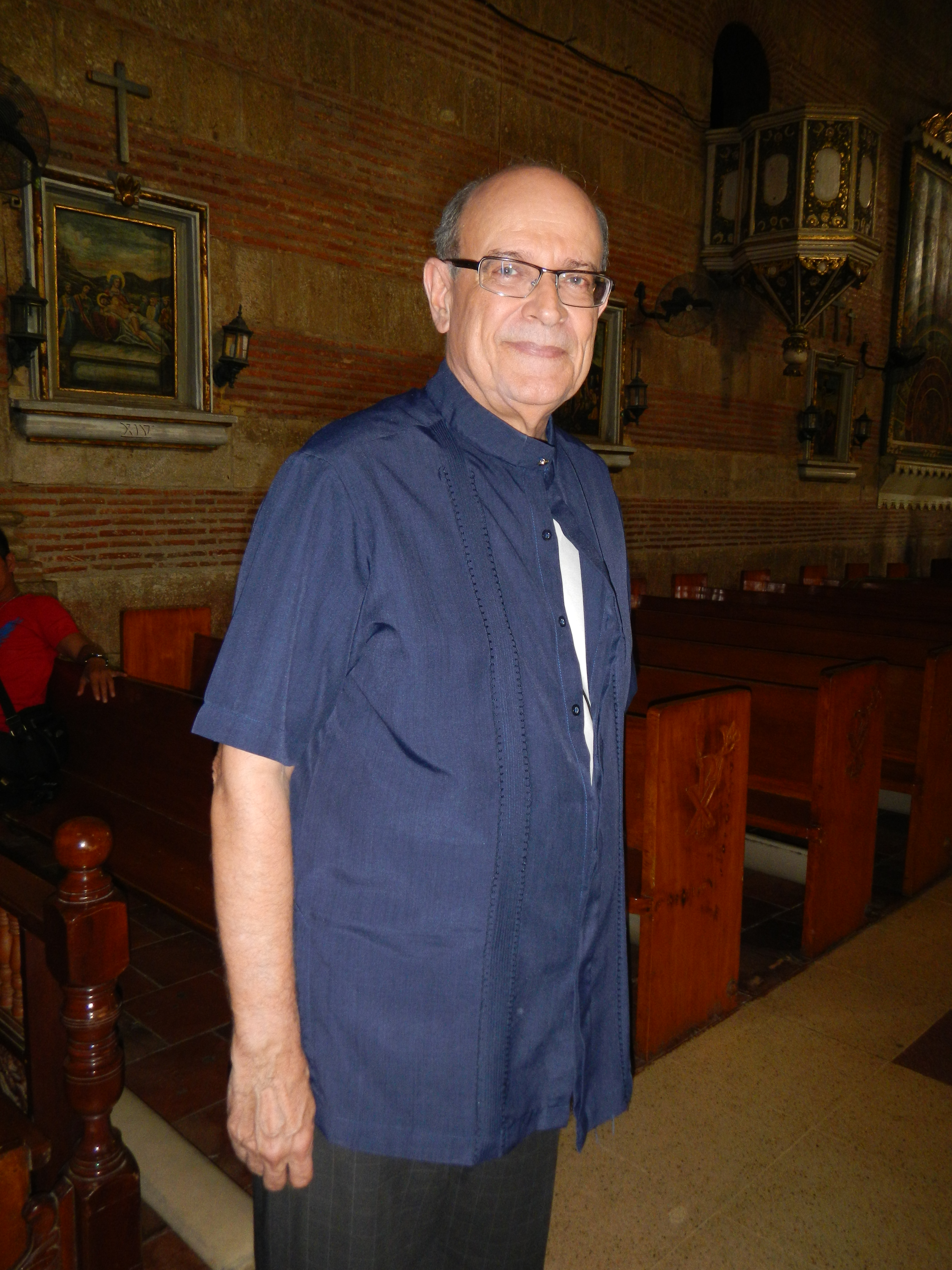 UploadWizard photos --- (general description) of (landmarks, heritage, culture, comprehensive, photography) of --- My Little Juan [1] (a Philippine fantasy-drama television series created by Rondel P. Lindayag. It stars Jaime Fabregas[2] and Izzy Canillo[3] as their previous respective roles.[4] being shot or in the TV movie making at the - Turmba Church ---Diocesan Shrine of Nuestra Señora de los Dolores de TurumbaCategory:Our Lady of Turumba